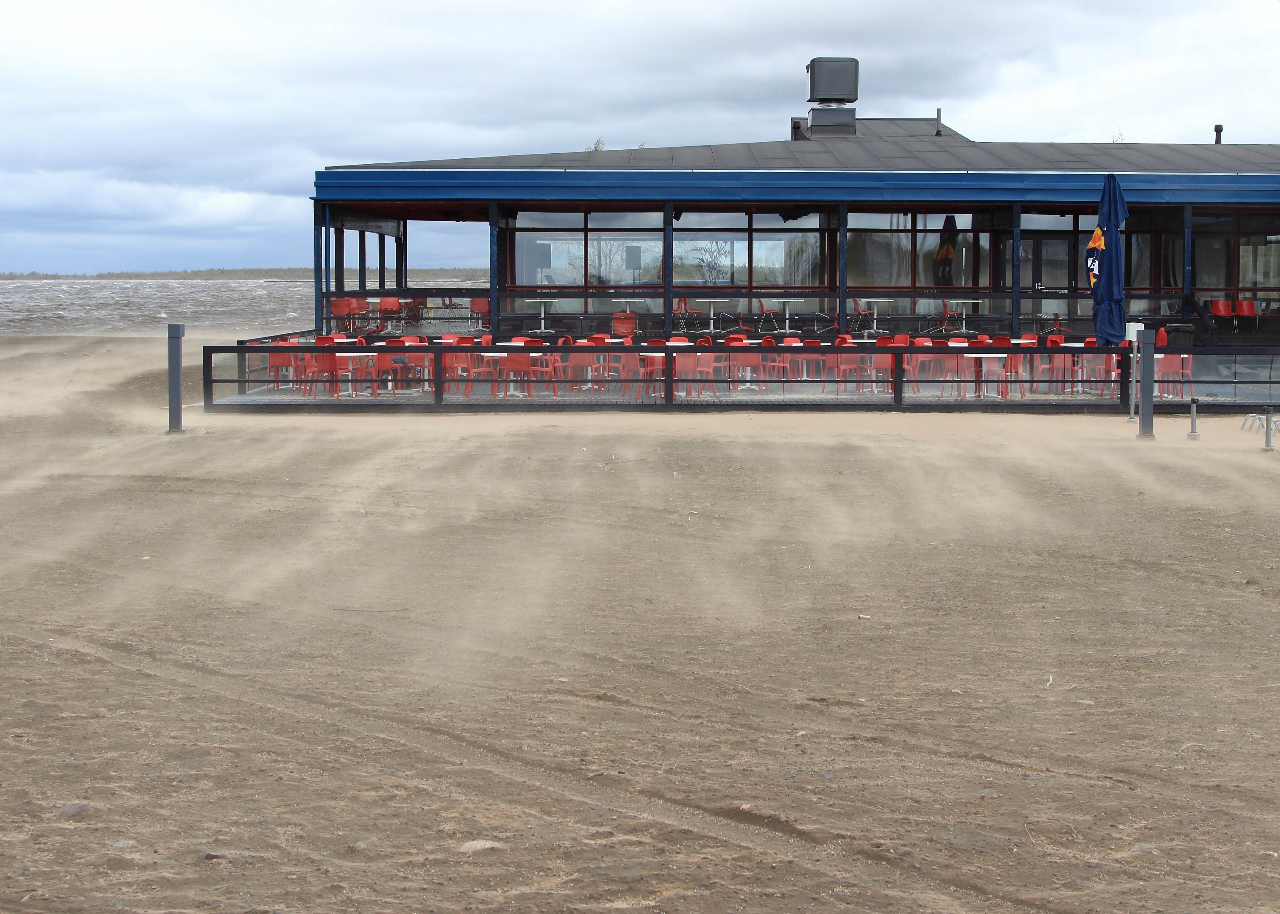 Restaurant Nallikari in Oulu.